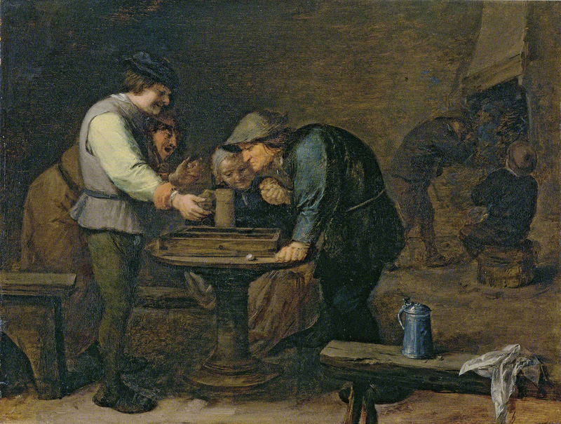 Adriaen Brouwer Peasants Playing Tric Trac c. 1635 29.7 x 38.6 cm Oil on panel Museum der Bildenden Künste, Leipzig